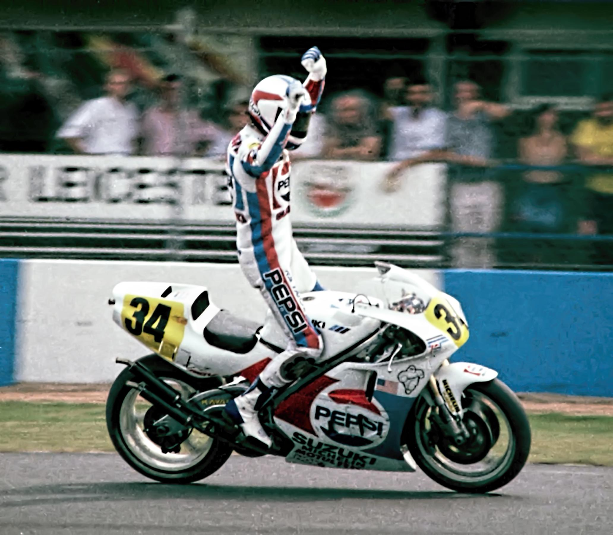 Kevin Schwantz, sitting on his Pepsi Cola Suzuki, waving his hands in the air and celebrating after winning the 1989 British Grand Prix.